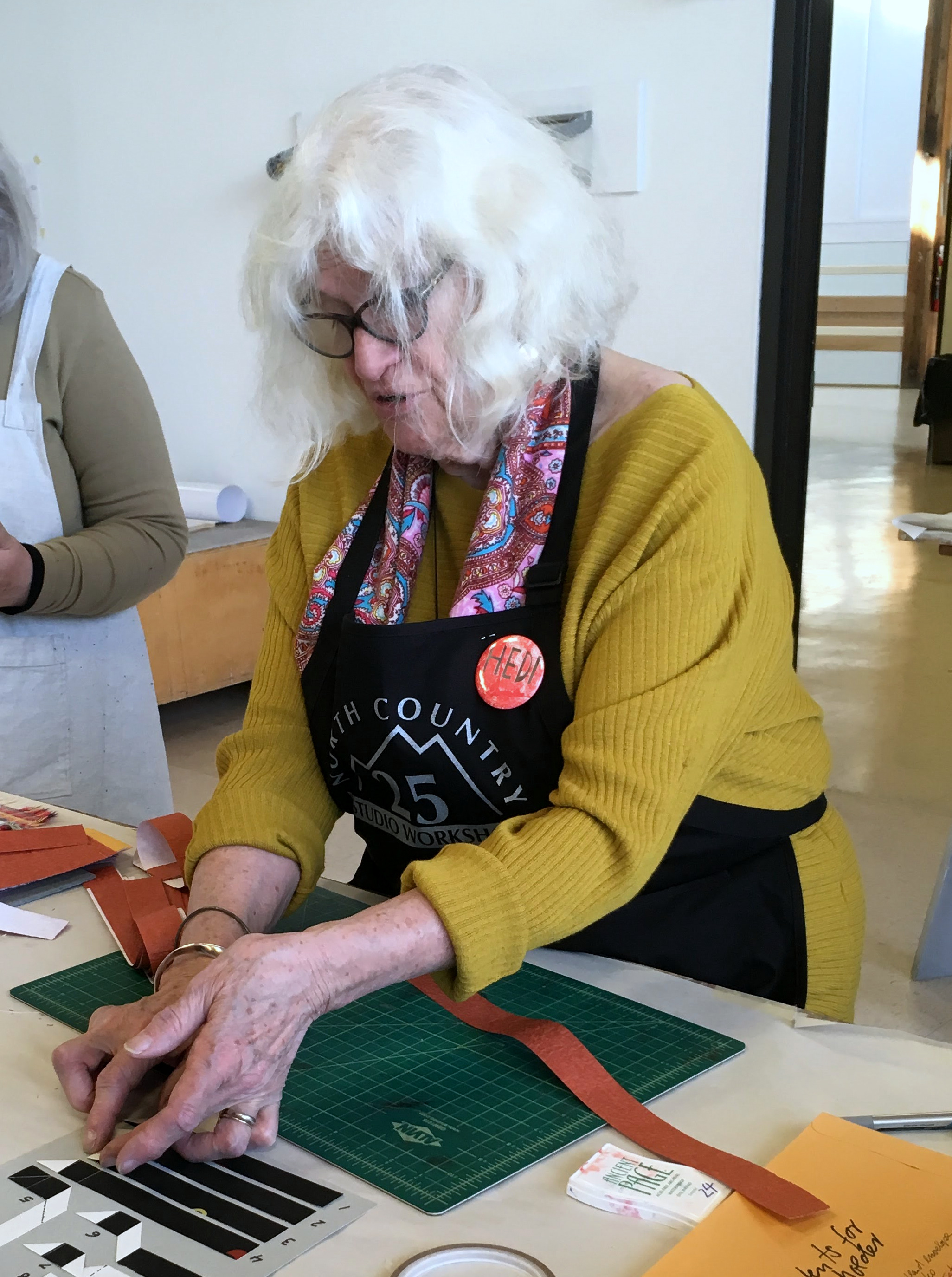 Hedi Kyle teaching at the 2018 North Country Studio Workshops. She is showing students how to fold a paper belt.